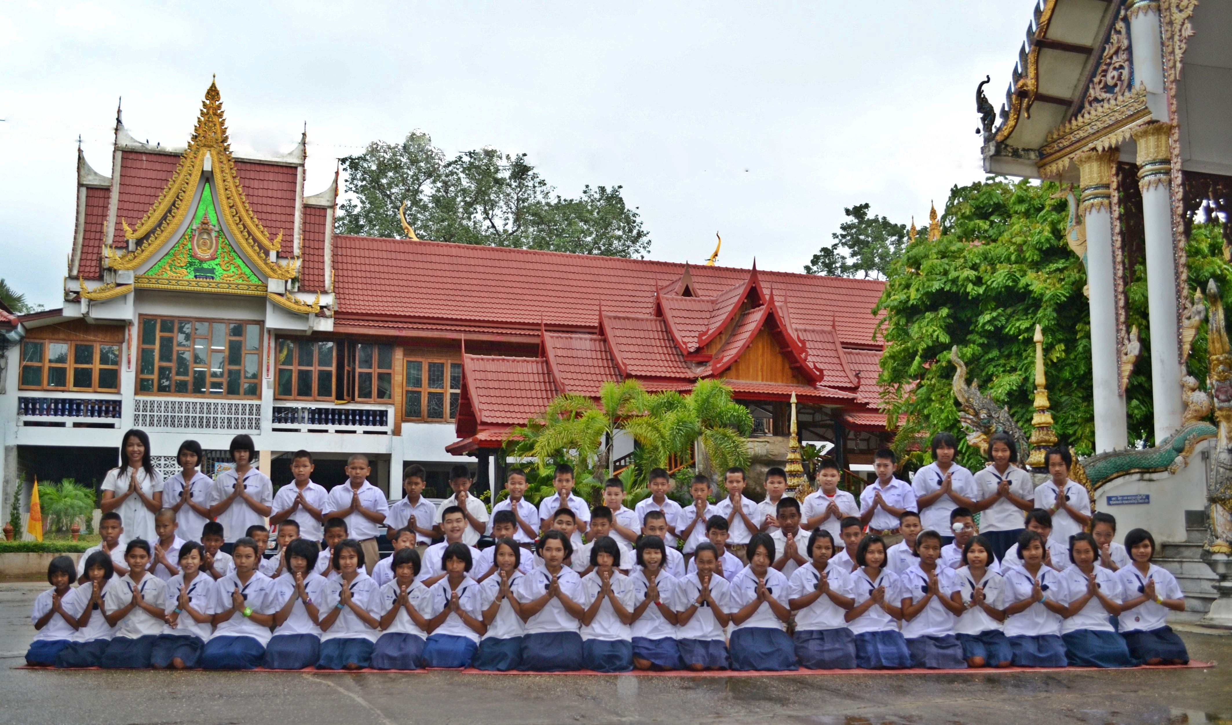 student in Wat Kungtaphao Buddhist School in Wat Kungtaphao, Khung Taphao subdistrict, Mueang Uttaradit, Uttaradit Province, Thailand.